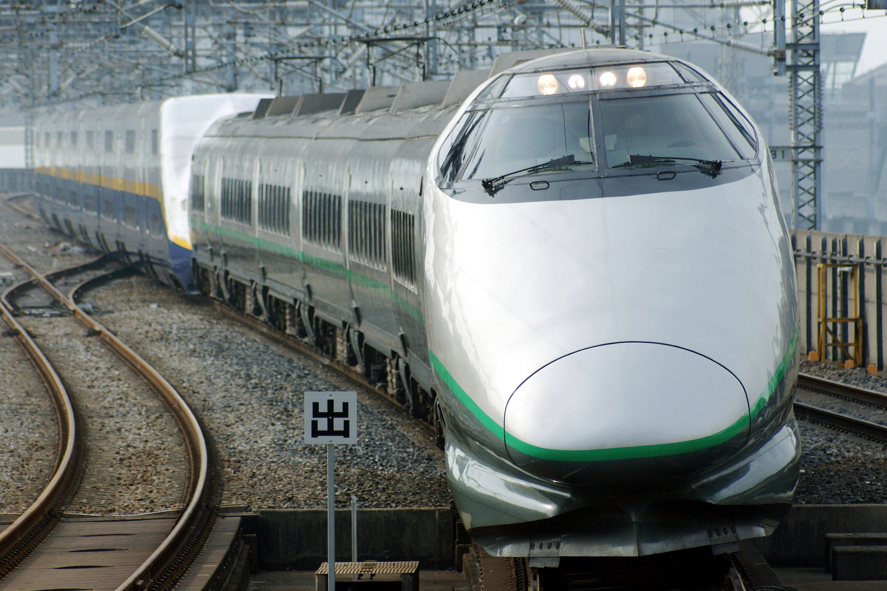 JR East Shinkansen 400 series EMU (renewal color) with E4 series.